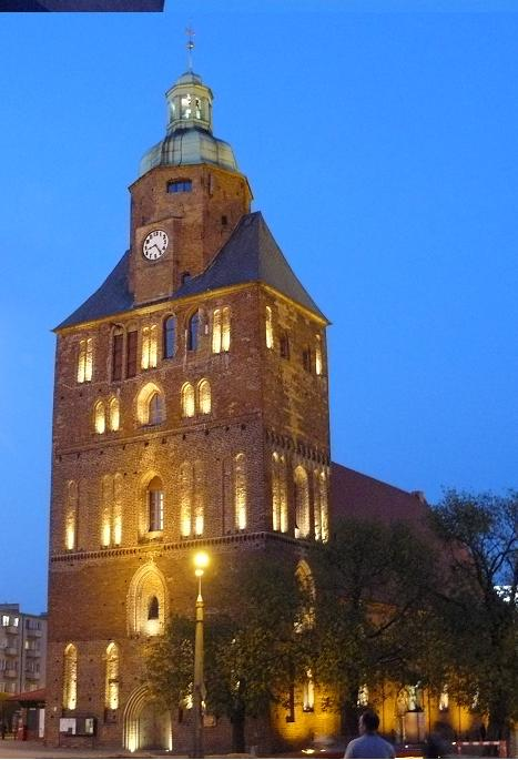 wieża katedralna w Gorzowie nocą